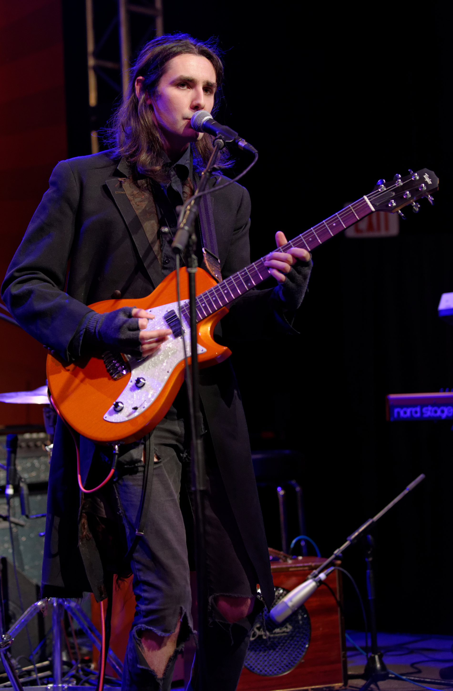 Zane Carney (with Paris Carney) performing live on the Taylor showroom stage, at the Winter NAMM Show in Anaheim California on Friday January 24th, 2015.